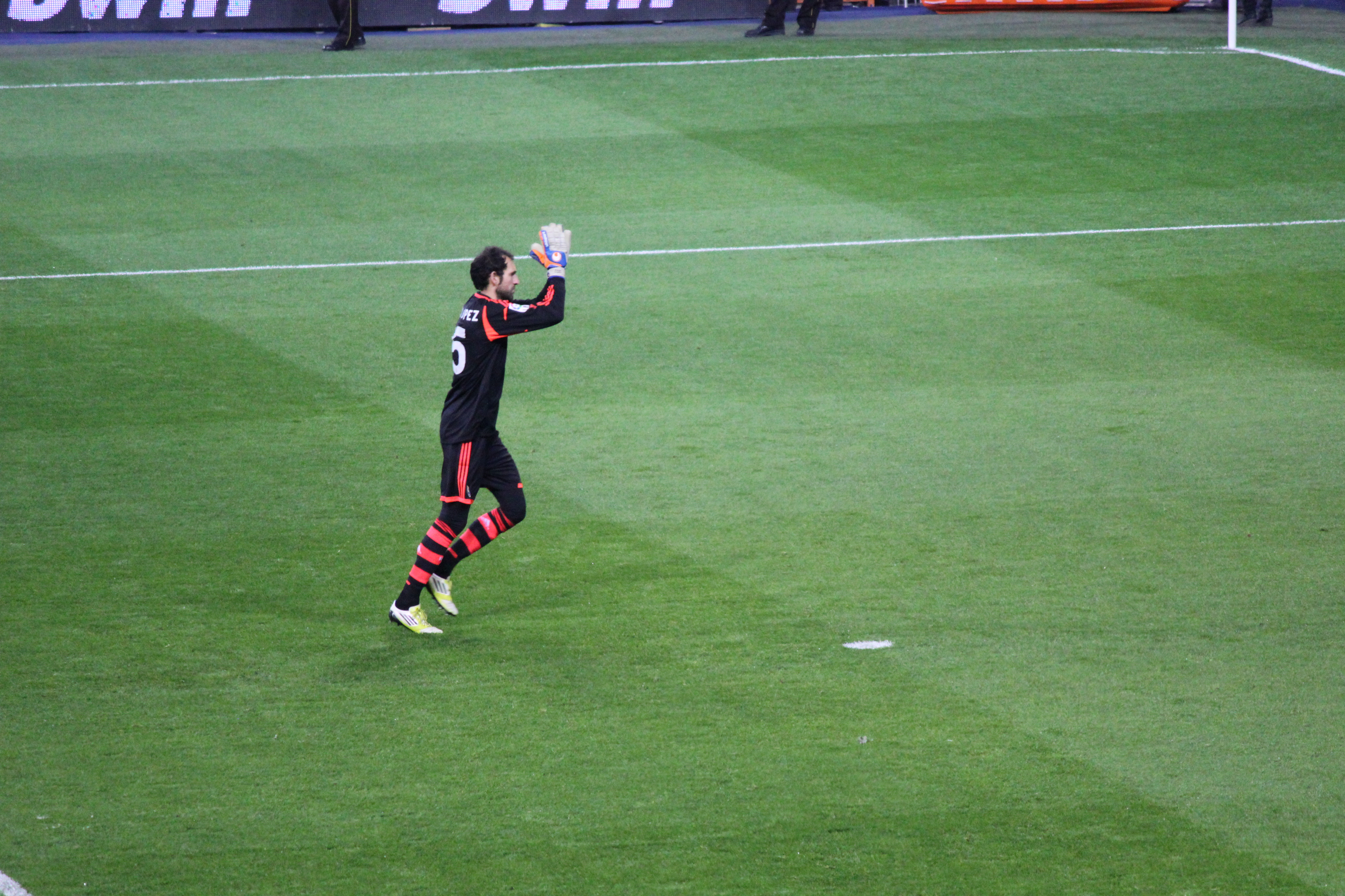 Real Madrid v Sevilla 10 February 2013 in a La Liga game at Real Madrid's home grounds.